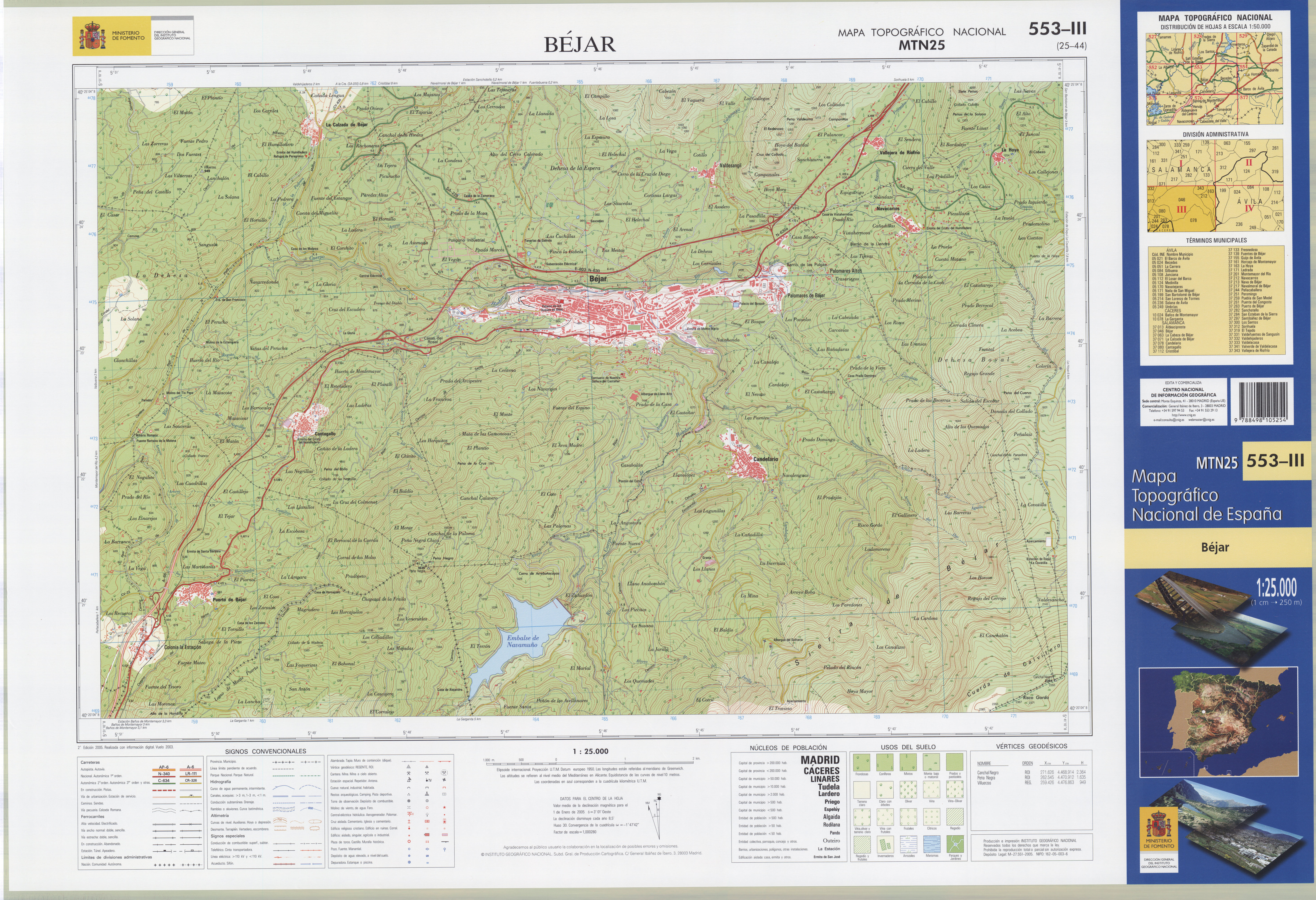 Fragment 0553c3 of the National Topographic Map of Spain in 2005 at a scale of 1:25000 printed and scanned with a resolution of 250 ppi. It shows Bejar.